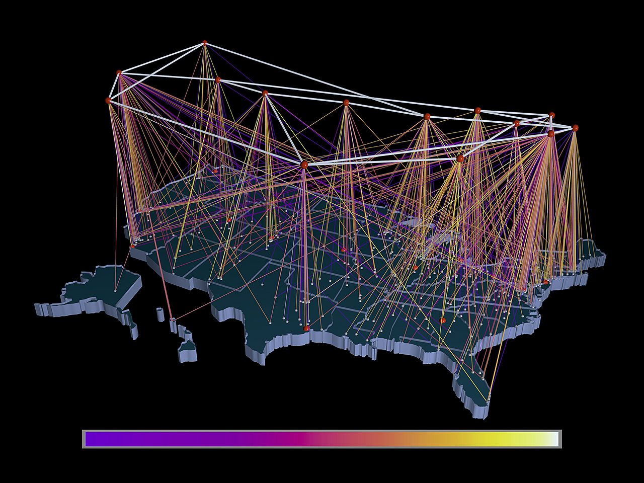 NSFNET T1 Backbone and Regional Networks Traffic, 1991 This image is a visualization study of inbound traffic measured in billions of bytes on the NSFNET T1 backbone for the month of September 1991. The traffic volume range is depicted from purple (zero bytes) to white (100 billion bytes). It represents data collected by Merit Network, Inc. Visualization by Donna Cox & Robert Patterson, National Center for Supercomputing Applications, University of Illinois at Urbana-Champaign. Sources: Merit Network, Inc., NCSA, and the National Science Foundation. URLs